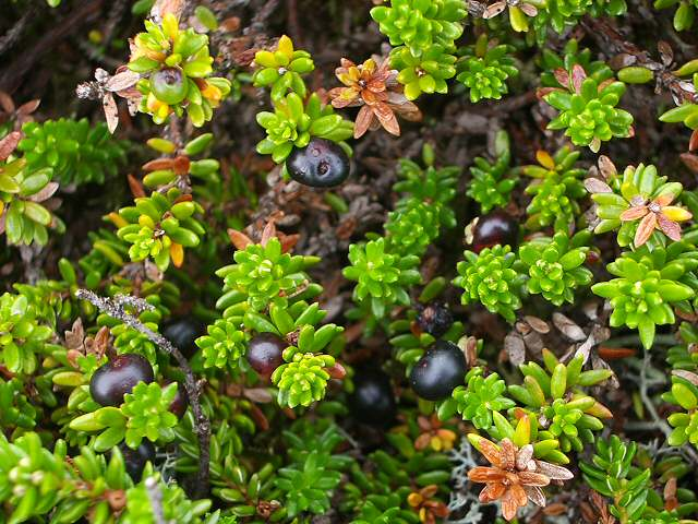 Crowberries. Empetrum nigrum This miniature shrub is growing in amongst the heather on the dry slopes of the ridge leading to Carn Dubh.